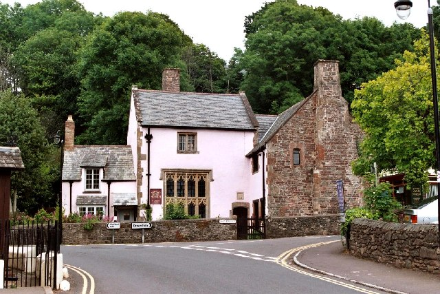 Dovery Manor, Porlock, Somerset. Apart from Porlock church, Dovery Manor is the oldest building in Porlock. It dates from the mid 15th century and is now used as a museum.